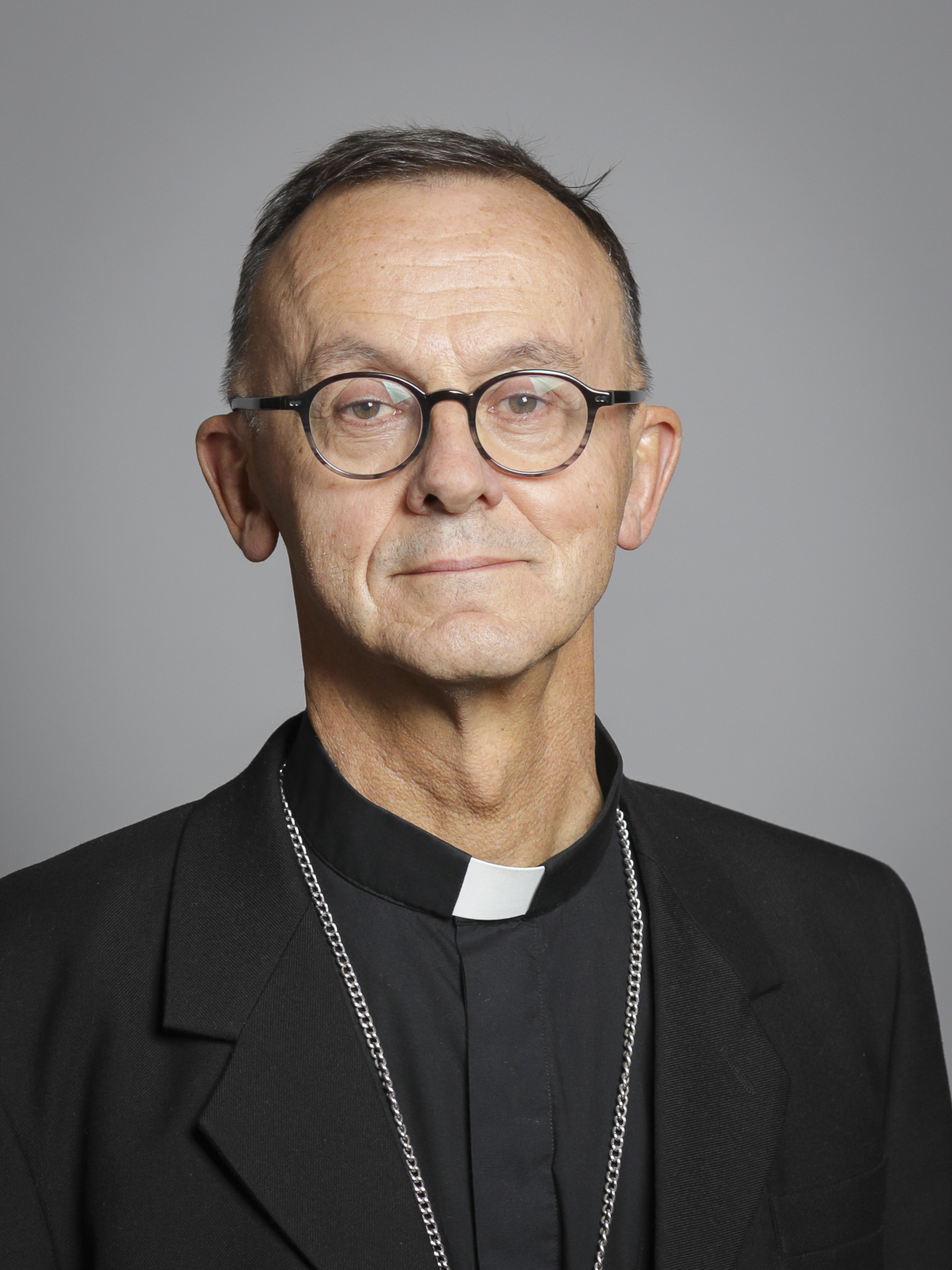 Official portrait of The Lord Bishop of Worcester 3×4 portrait of The Lord Bishop of Worcester